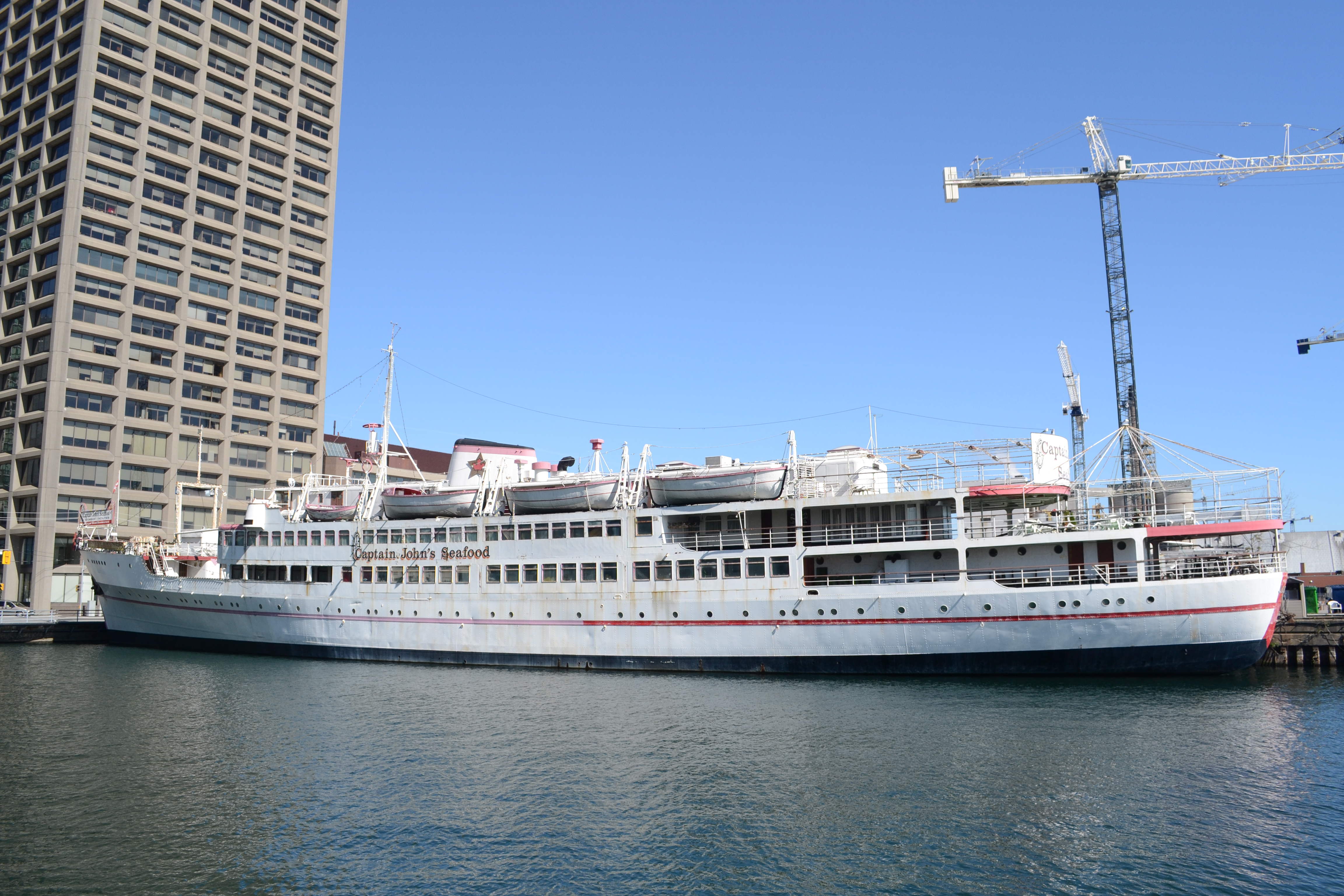 Captain John's Harbour Boat Restaurant